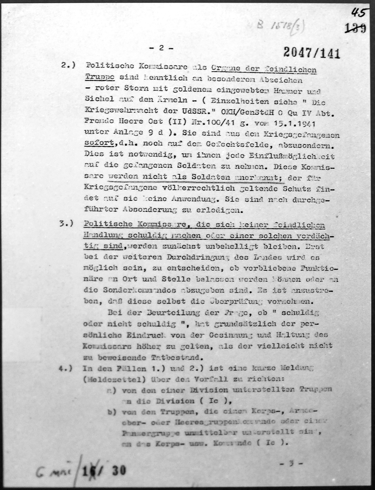 Kongreßhalle Nuremberg at the Reichsparteitagsgelände; Documents The making of this work was supported by Wikimedia Austria. For other files made with the support of Wikimedia Austria, please see the category Supported by Wikimedia Österreich. This file is ineligible for copyright and therefore in the public domain because it consists entirely of information that is common property and contains no original authorship.